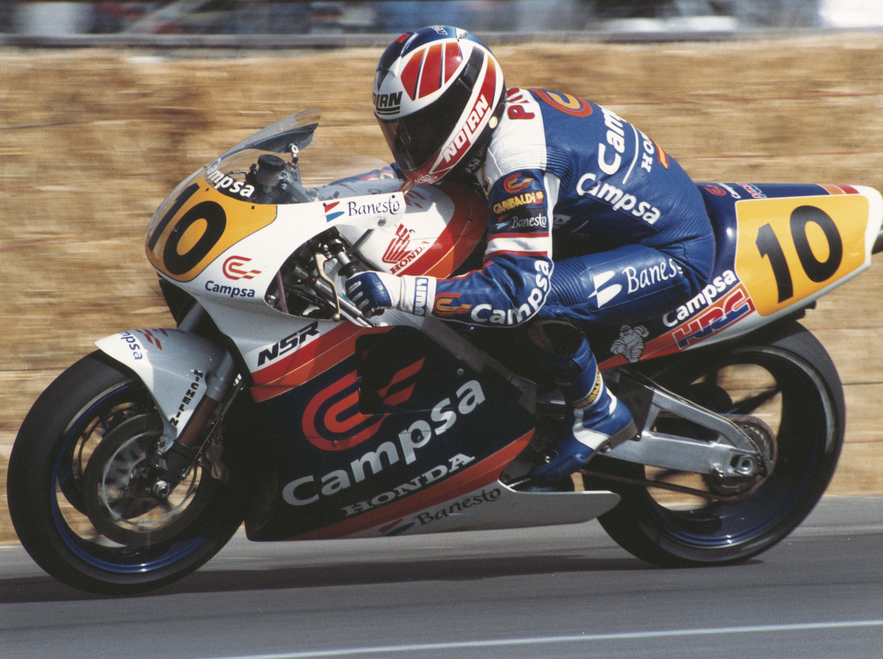 Sito Pons, riding his Campsa Honda at the 1991 United States Grand Prix.